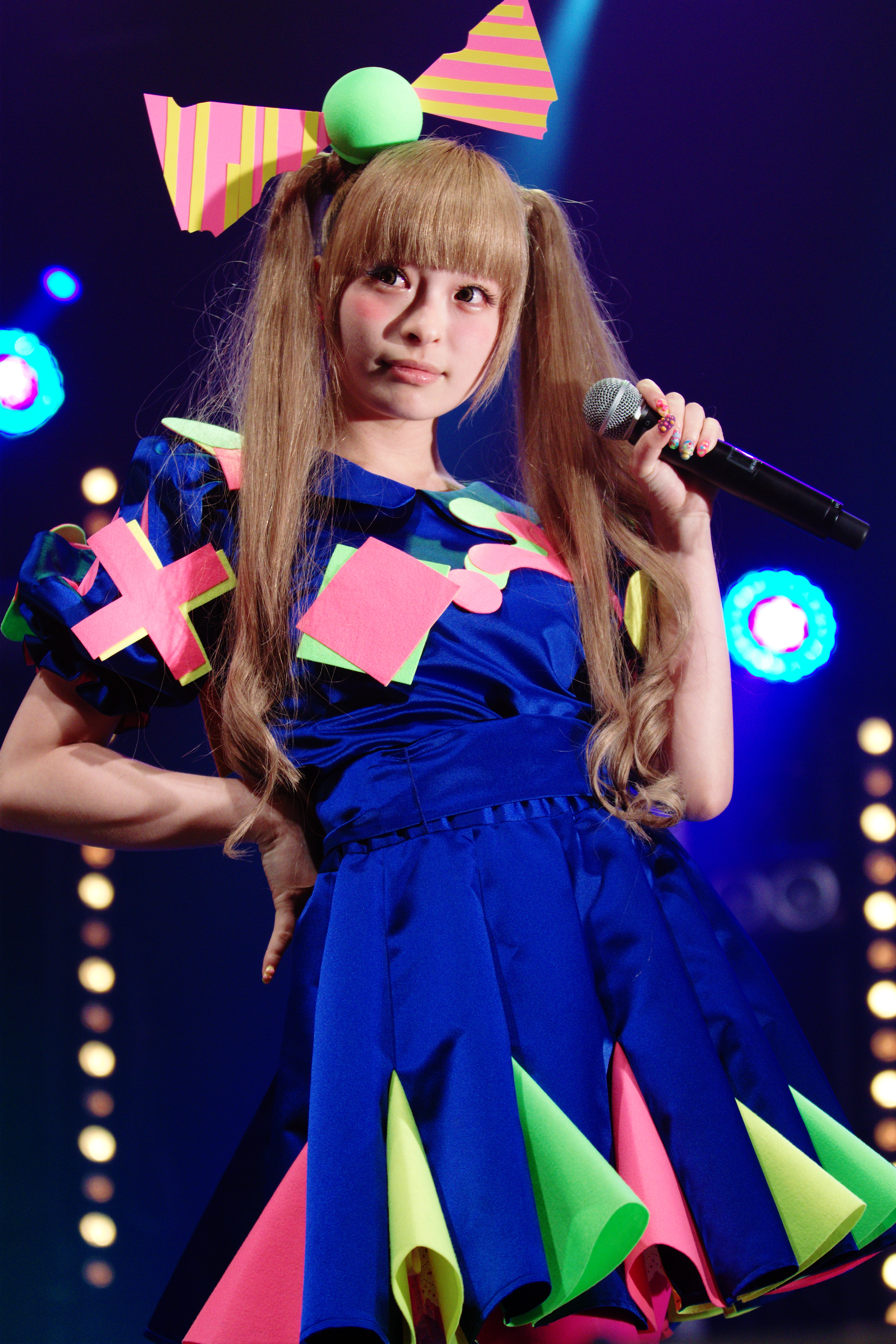 Kyary Pamyu Pamyu live at Japan Expo 2012 (Paris, France)